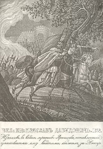 Izyaslav III Davidovich, the Grand Prince of Kiev